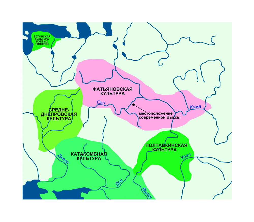 map of archeological culture Fatyanovo (russian bronzeage)